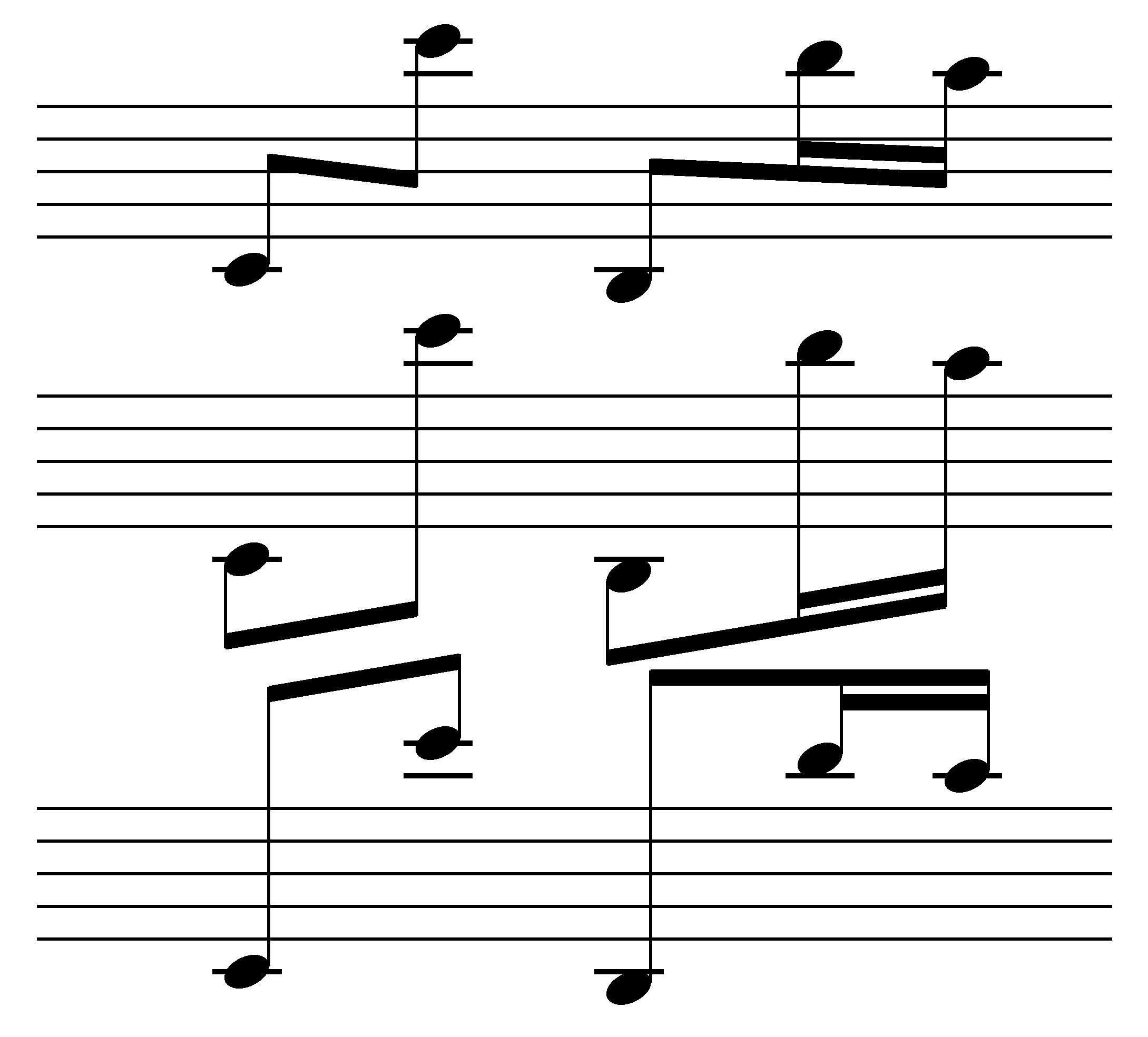 Exceptional beaming midway beams lessens crowded staves. Thus, the top line preferred over the bottom two options.